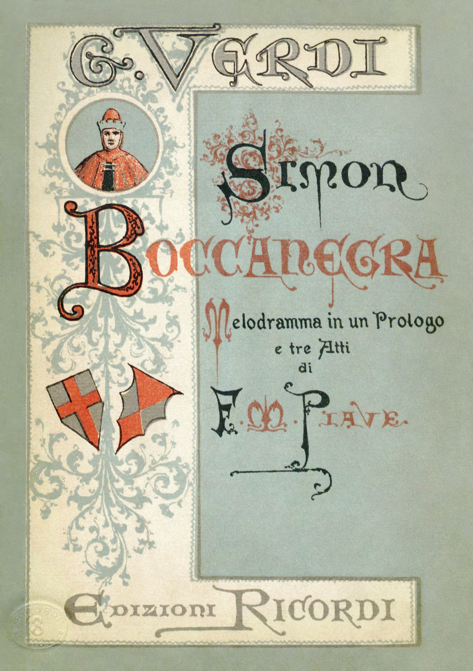 Cover to the first edition libretto for the 1881 revision of Giuseppe Verdi's Simon Boccanegra. Restored: Edges cleaned up, dust spots removed, rotate and tweaked slightly for rectangularness (didn't seem to be lying flat) and generally cleaned up.